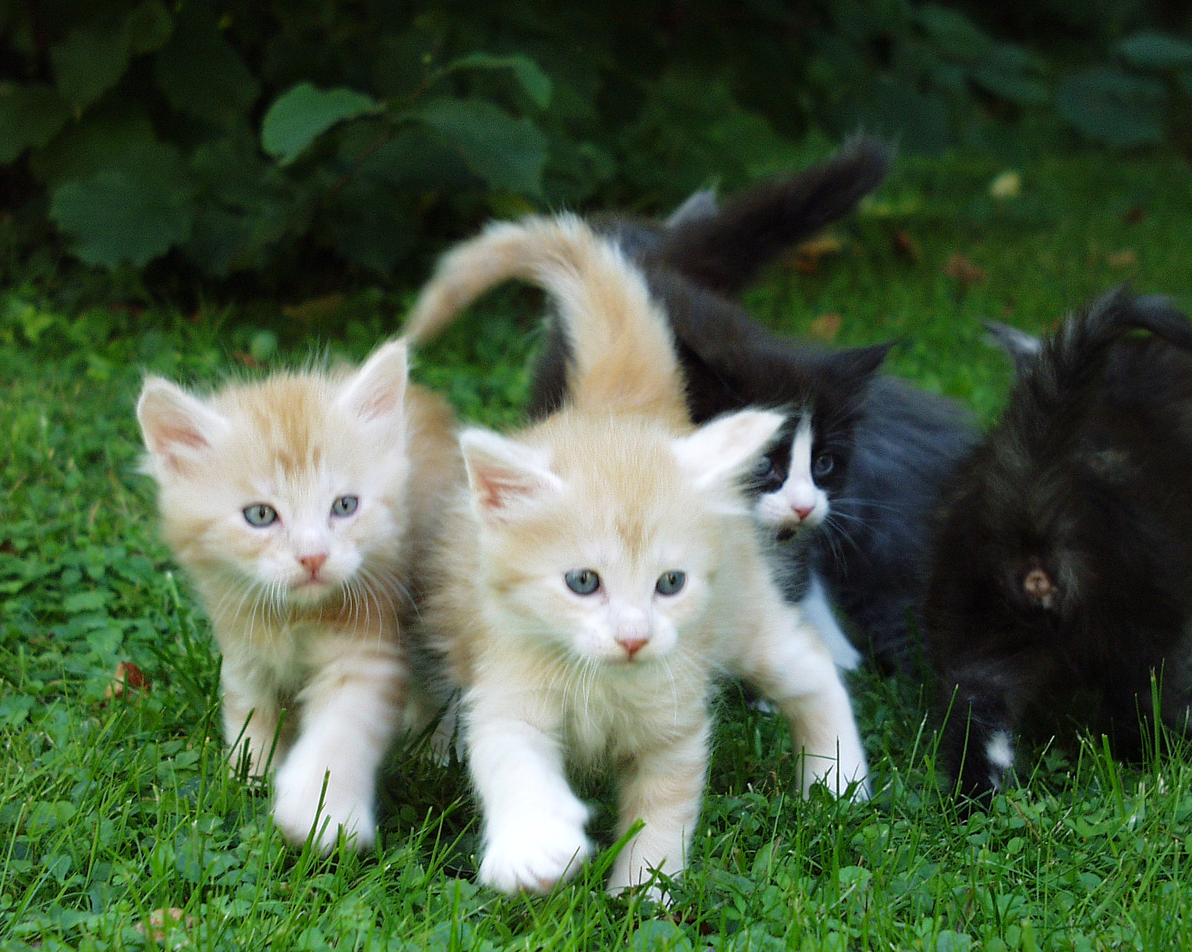 a couple of kittens at six weeks of age